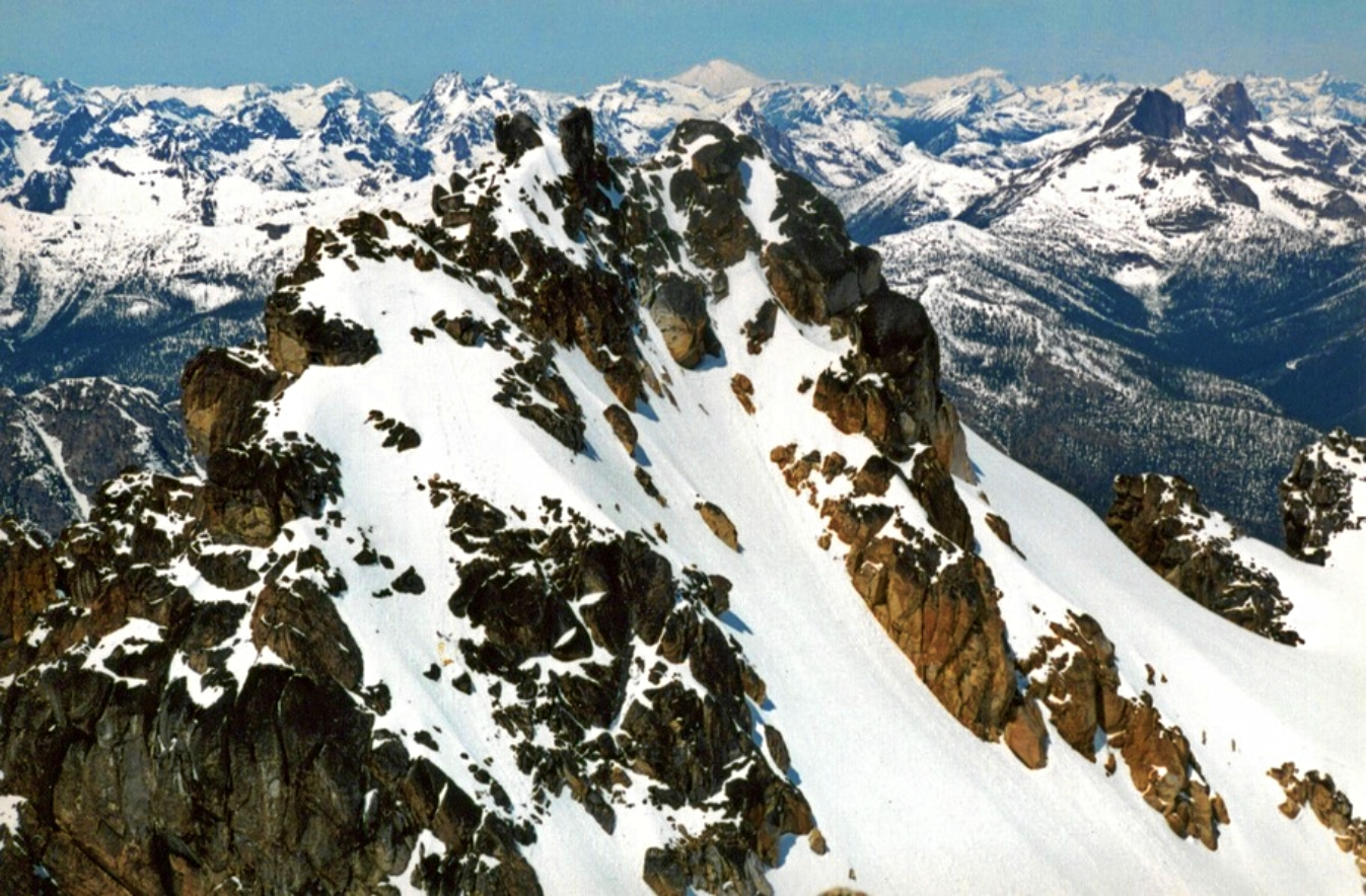 The east summit of Silver Star Mountain looking at west summit. North Cascades of Washington.